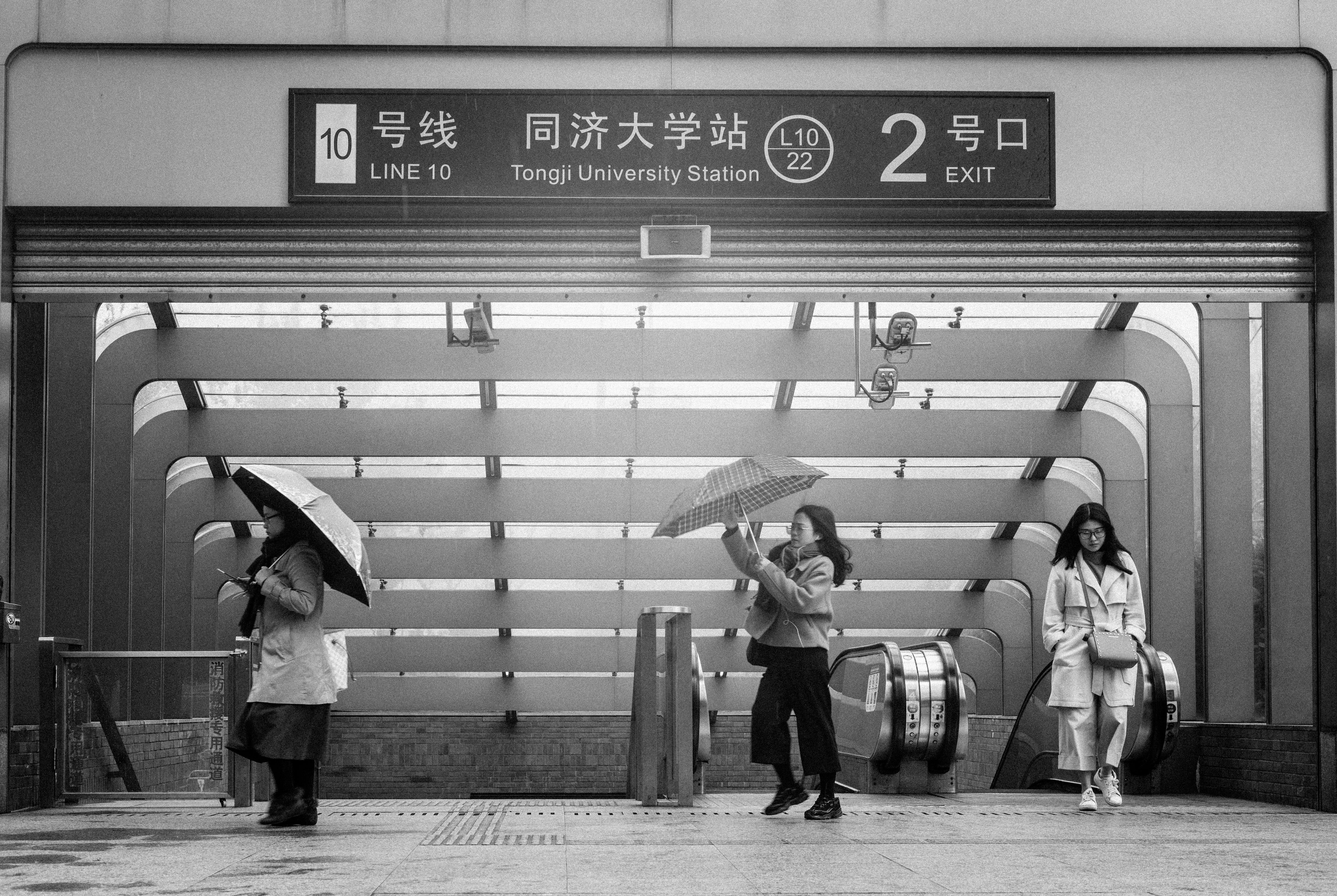 Tongji University Station